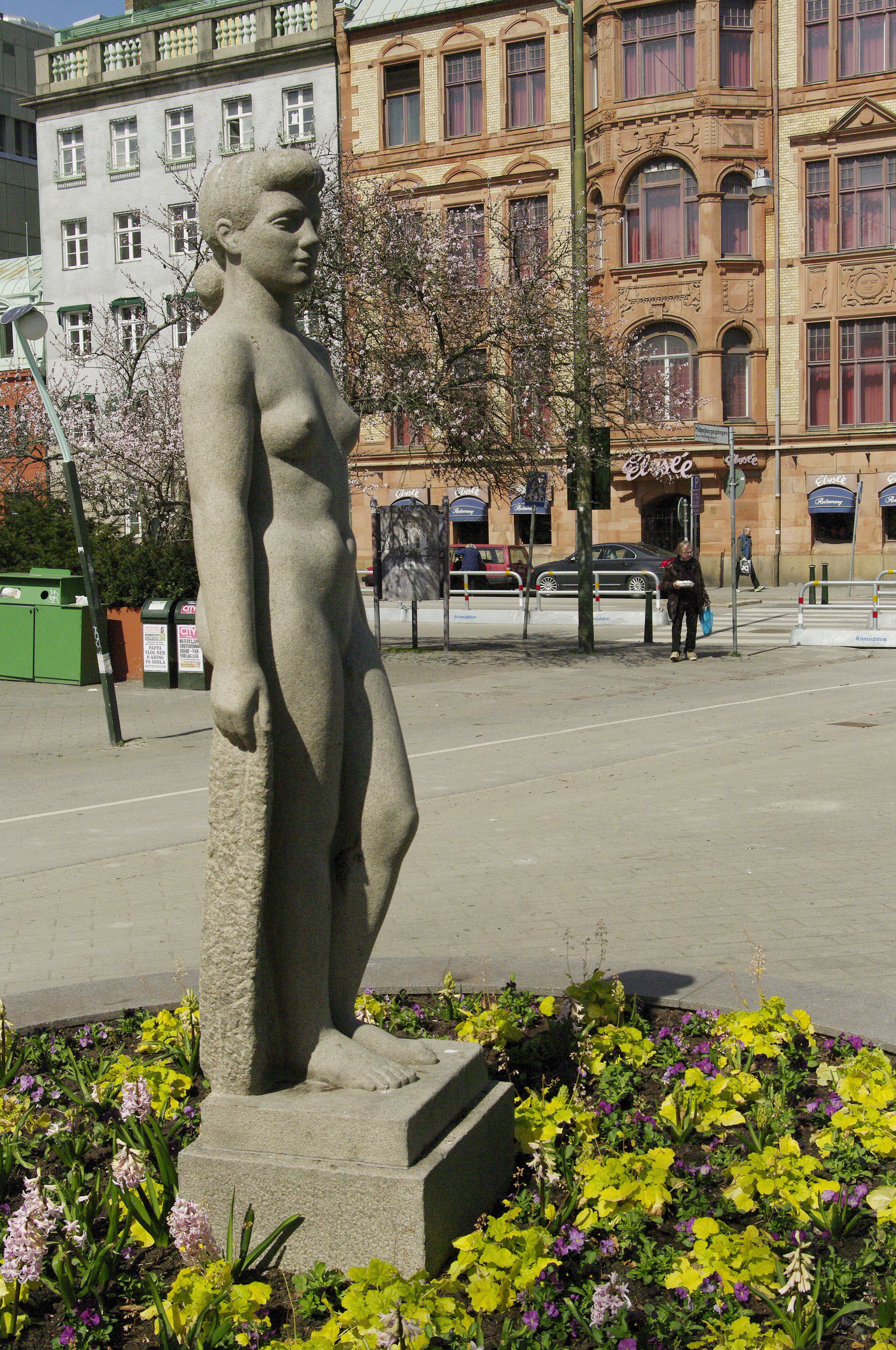 Statue Göta Malmö Sweden